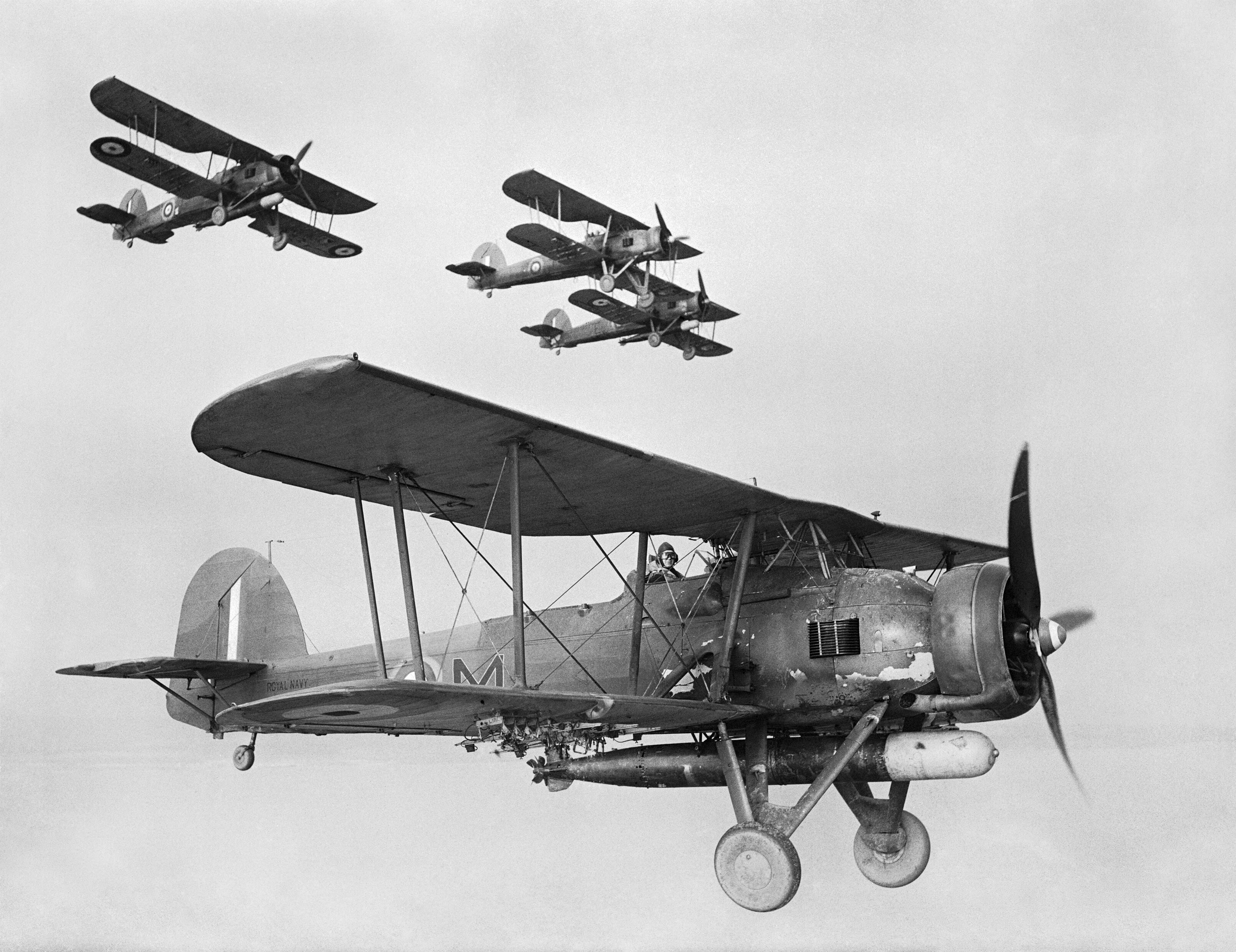 Fairey Swordfish Mk I torpedo bombers of the Fleet Air Arm on a training flight from Crail in Scotland, 1940. Fairey Swordfish Mk I Naval torpedo-bombers of the Fleet Air Arm on a training flight from Crail in Scotland.